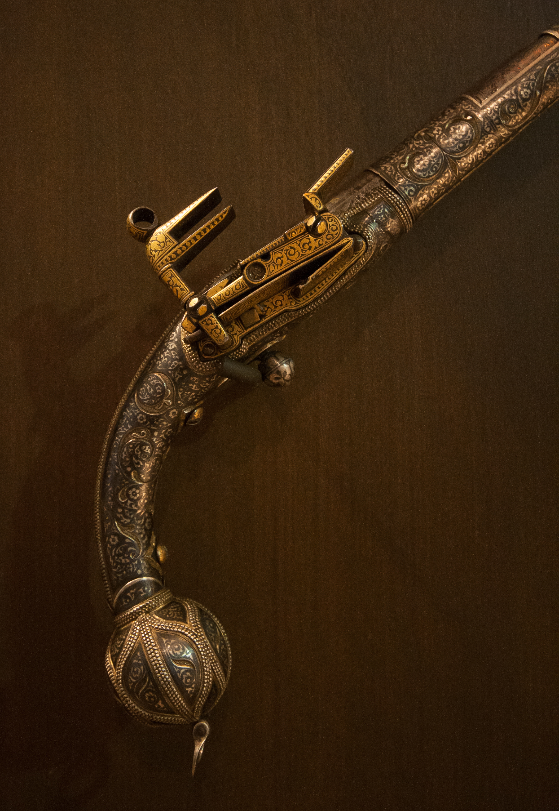 Flintlock pistol, Italy. Weapons Department in the Museum of Art and Industry in Saint-Étienne, France.